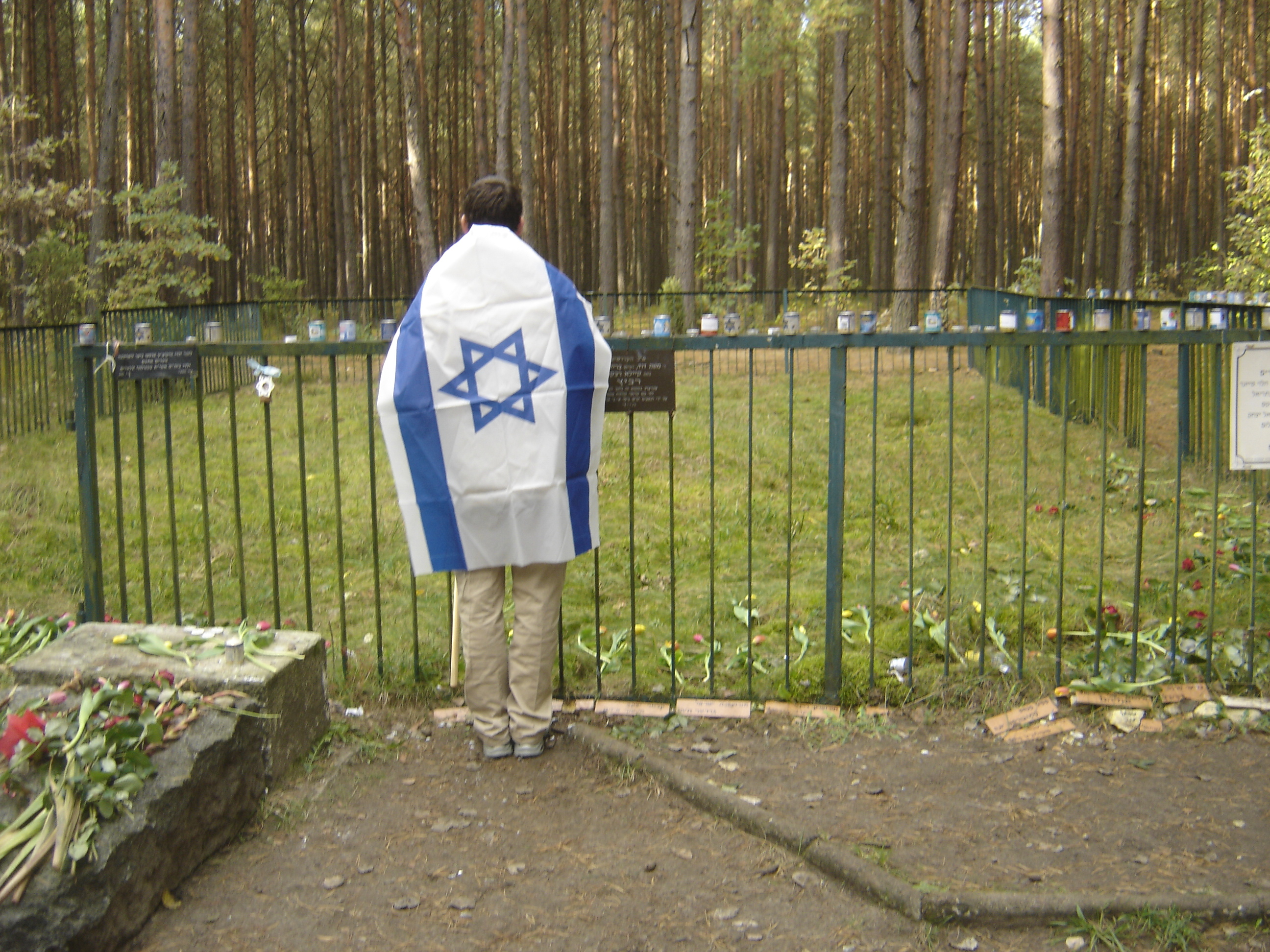 Jewish cemetery in Tykocin